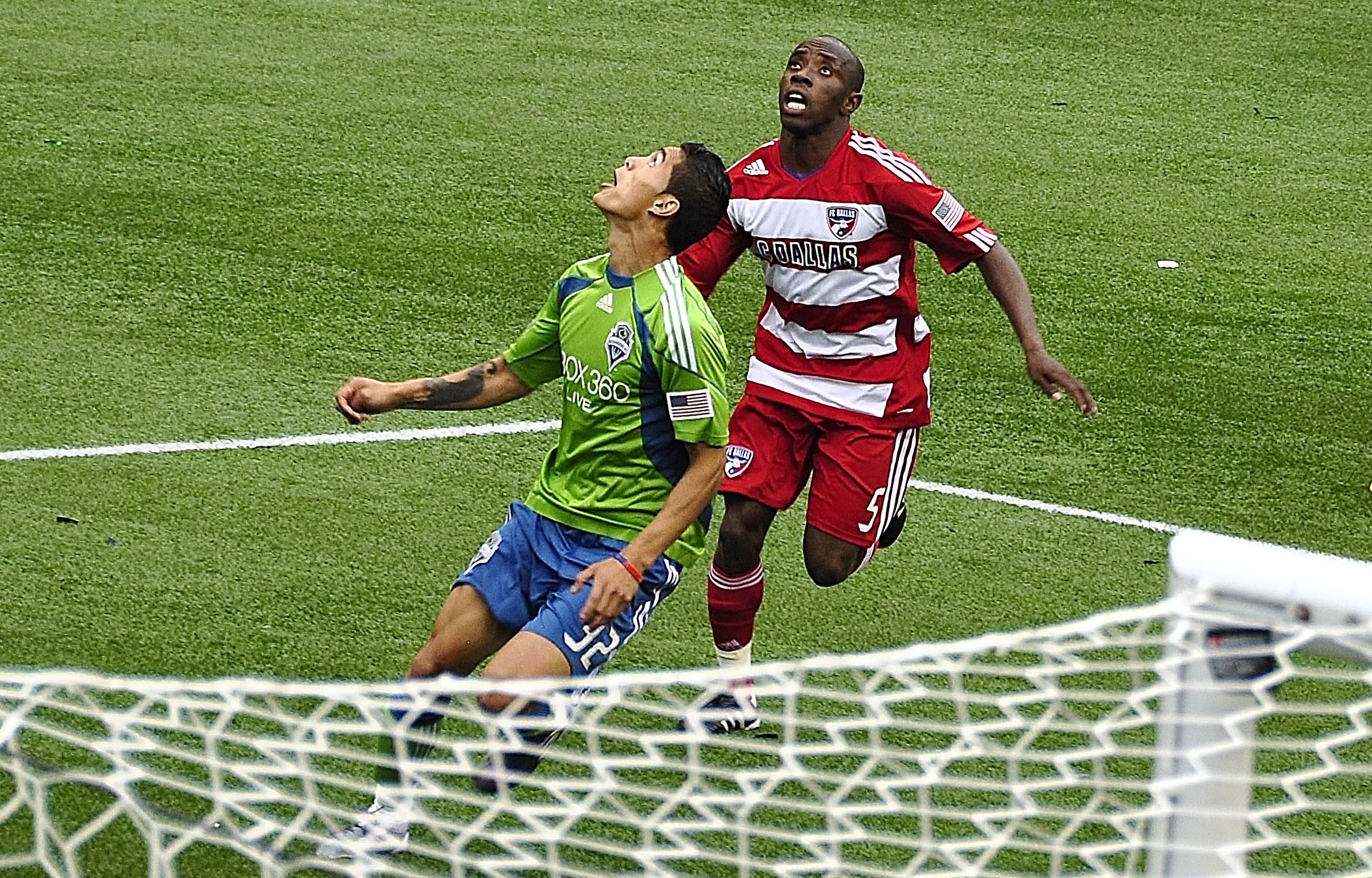 Miguel Montano of Seattle Sounders and Jair Benitez of FC Dallas